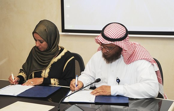 An image of Ilham Kadri signing the deal for the first membrane desalination plant in the Kingdom of Saudi Arabia